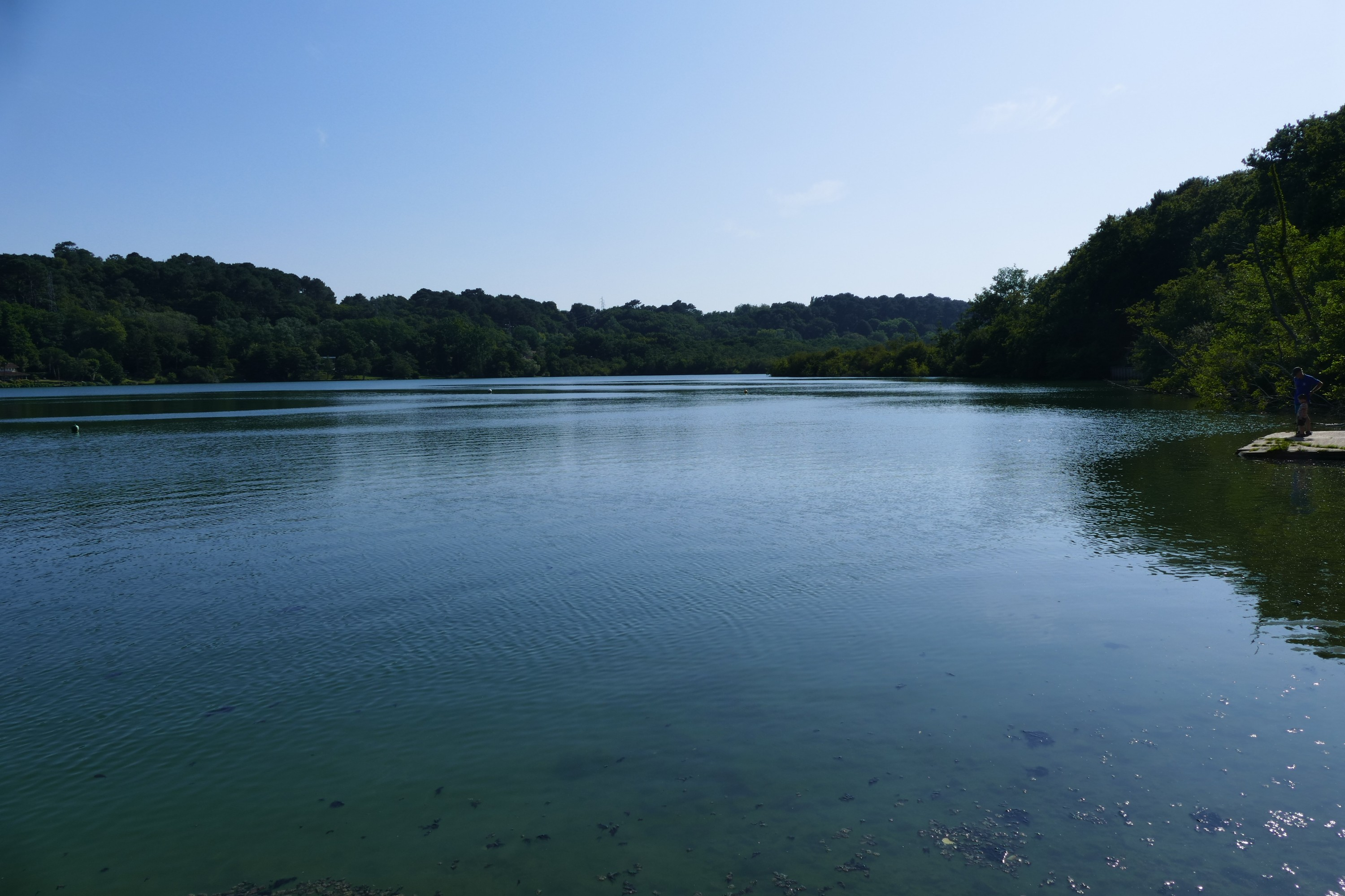 Lac Mouriscot in Biarritz (Pyrénées-Atlantiques, Nouvelle-Aquitaine, France).